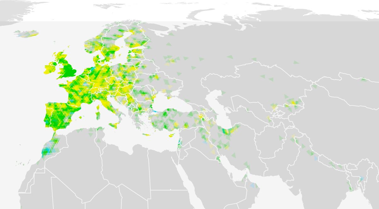 Common Wood Pigeon (Columba palumbus) e-bird plot: green = year-round, yellow = summer, blue = winter.